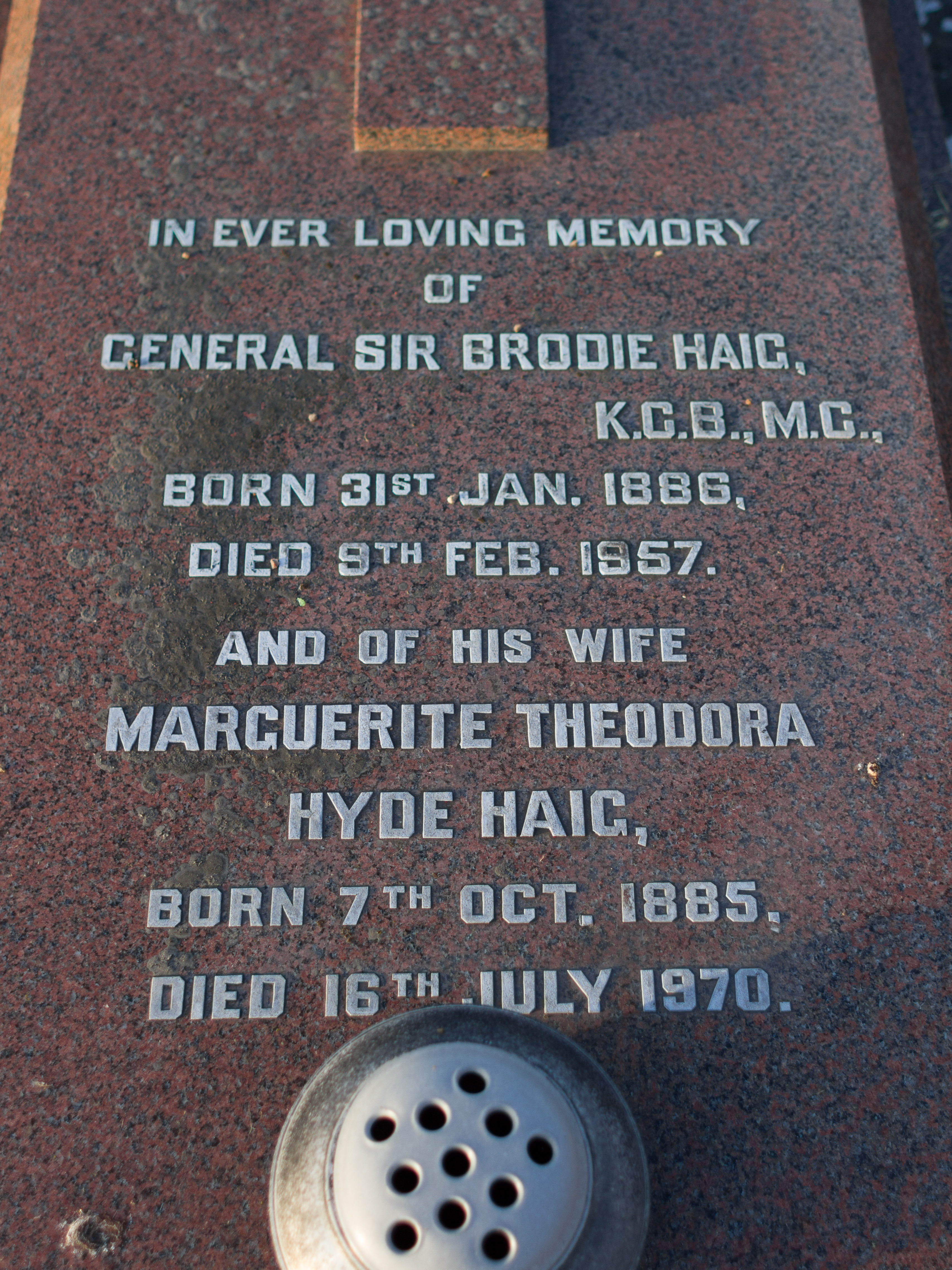 Gravestone of General Sir (Arthur) Brodie Haig and family at La Croix Cemetery, Grouville, Jersey.